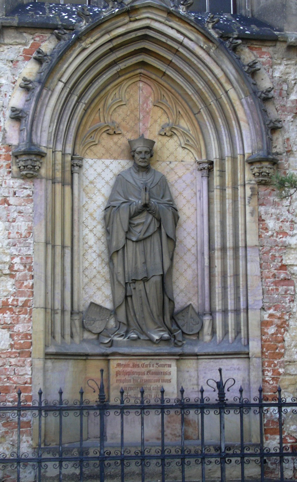 Epitaph of Cardinal Sommerau-Beckh, 5th archbishop of Olomouc from J. Gasser von Valhorn. Saint Maurice Church in Kroměříž.